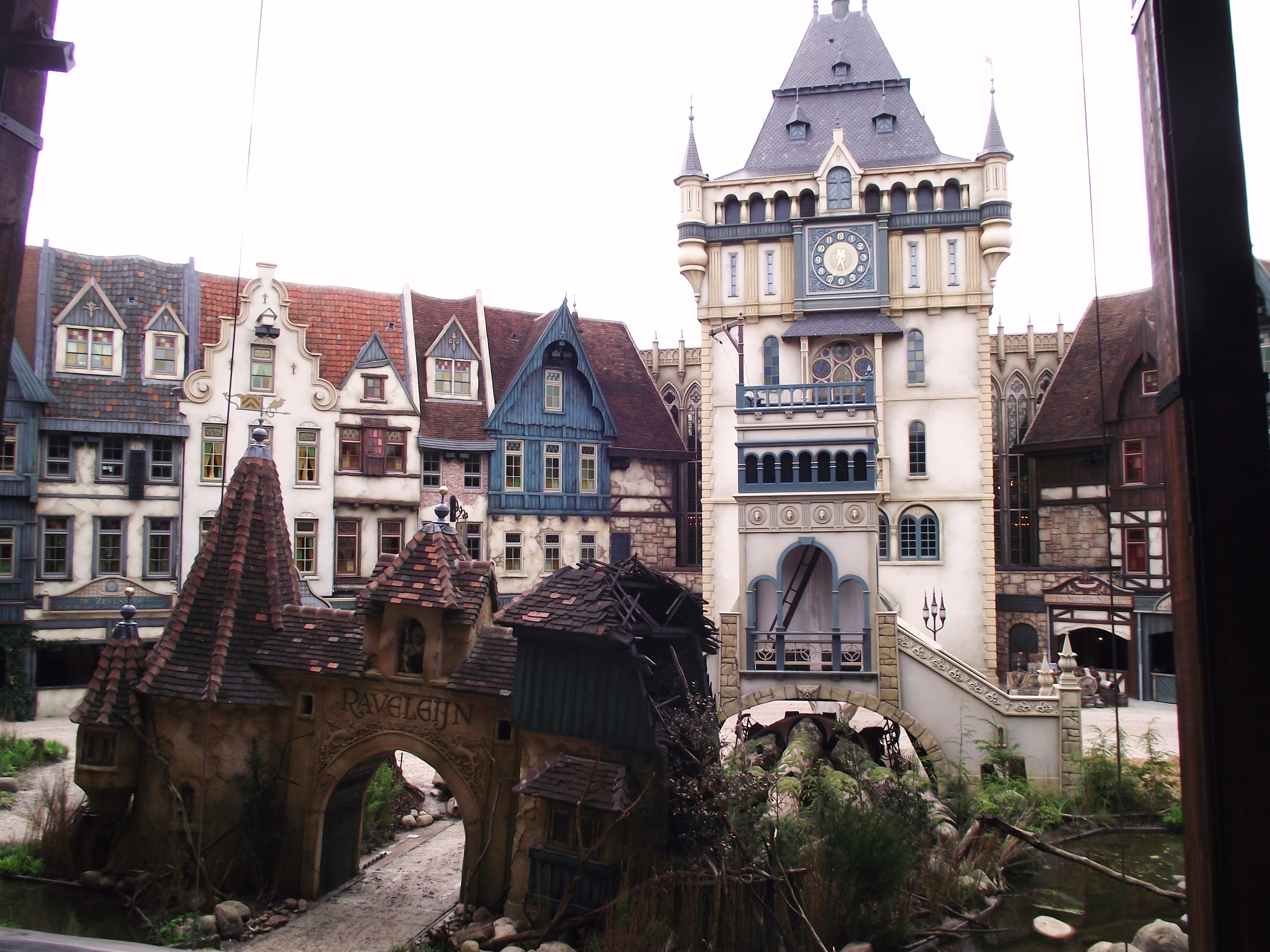 Raveleijn 2013 at Efteling